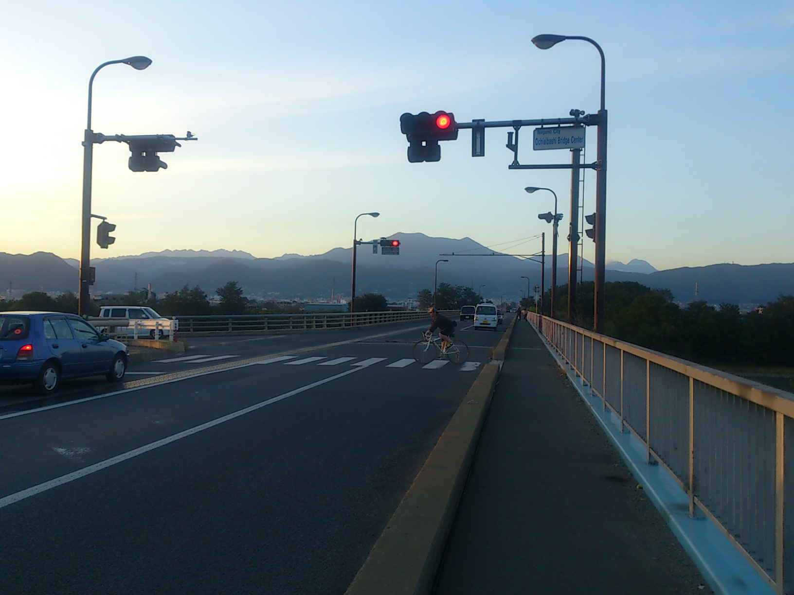 The Ochiaibashi-chuo Intersection in Wakahoushijima, Nagano City, Nagano Prefecture, Japan